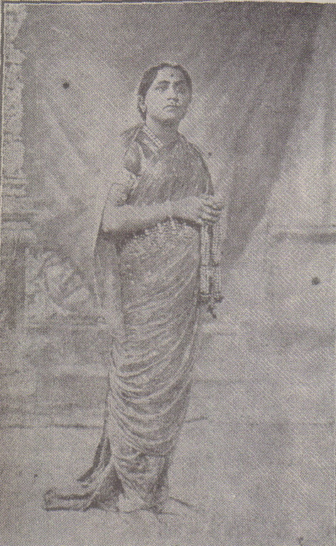 Bal Gandharva